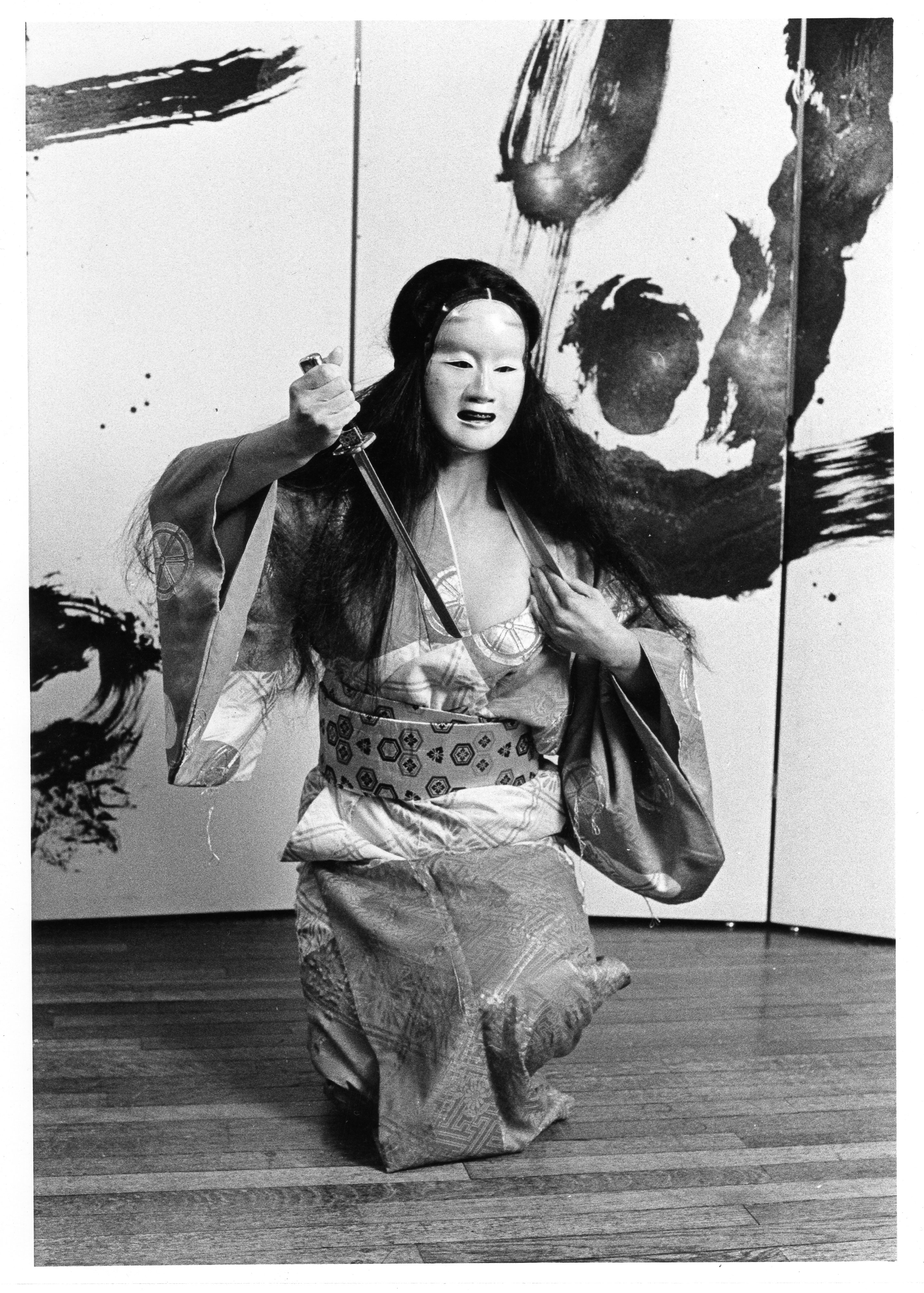 Brenda Wong Aoki studied Noh and Japanese theatre in Japan.